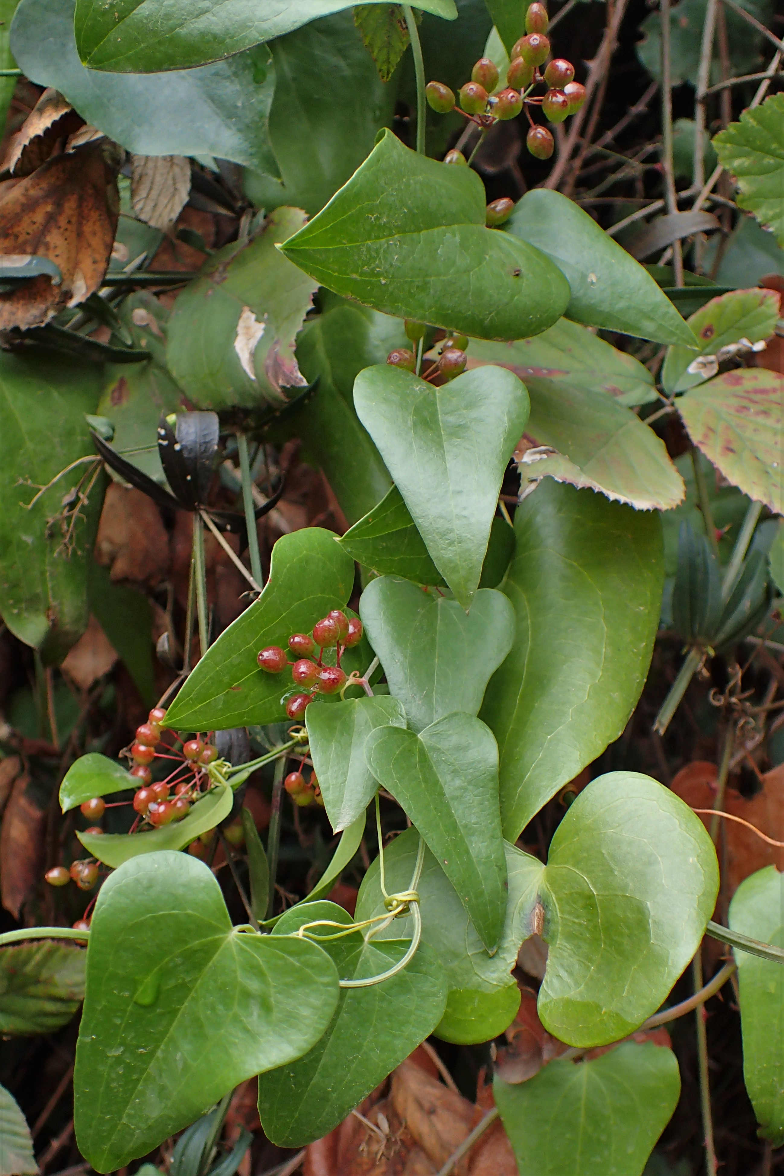 Smilax aspera in Ourika (Marrakesh-Safi, Morocco)